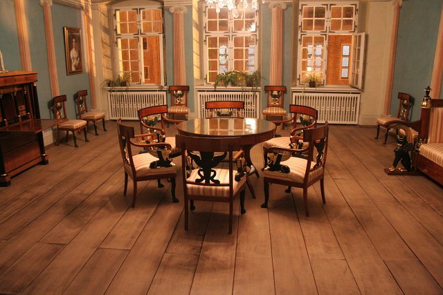 Toruń, House Under the Star